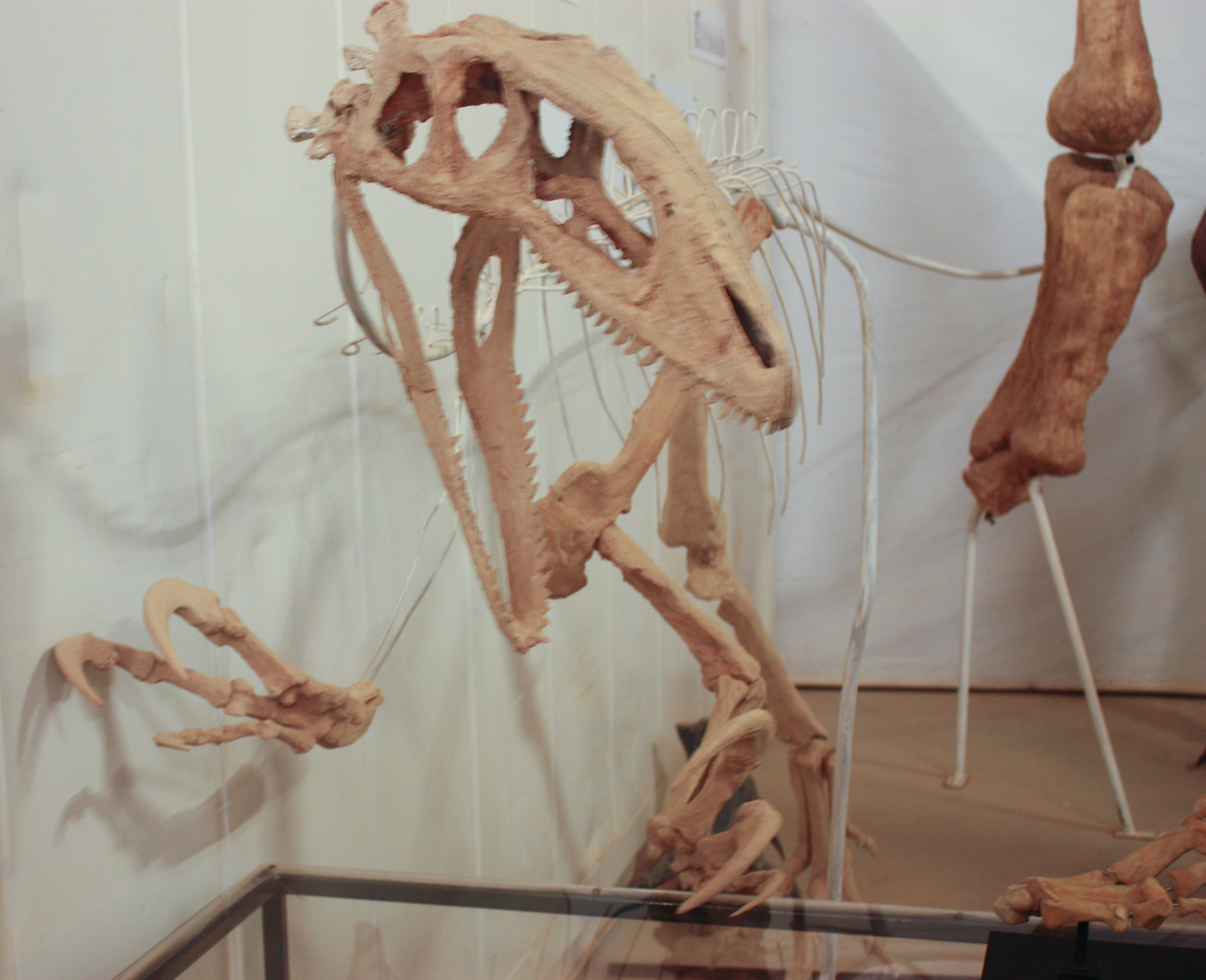 Restoration of the skeleton, Age of Dinosaur Museum, Winton, Australia